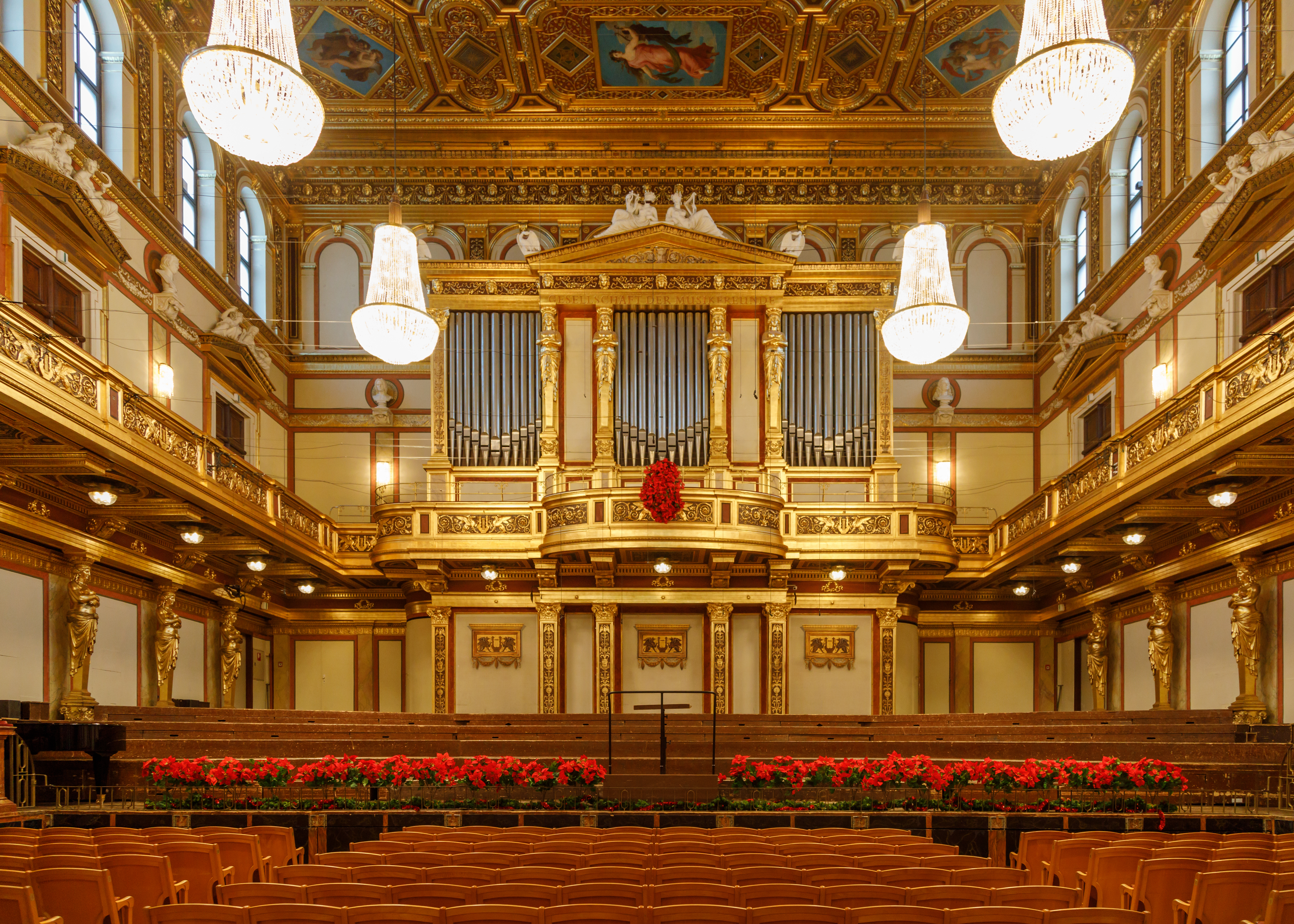 Vienna, Austria: The "Golden Hall" of Musikverein Vienna. Photo taken on the 147th anniversary of the building, which was inaugurated January 6, 1870.